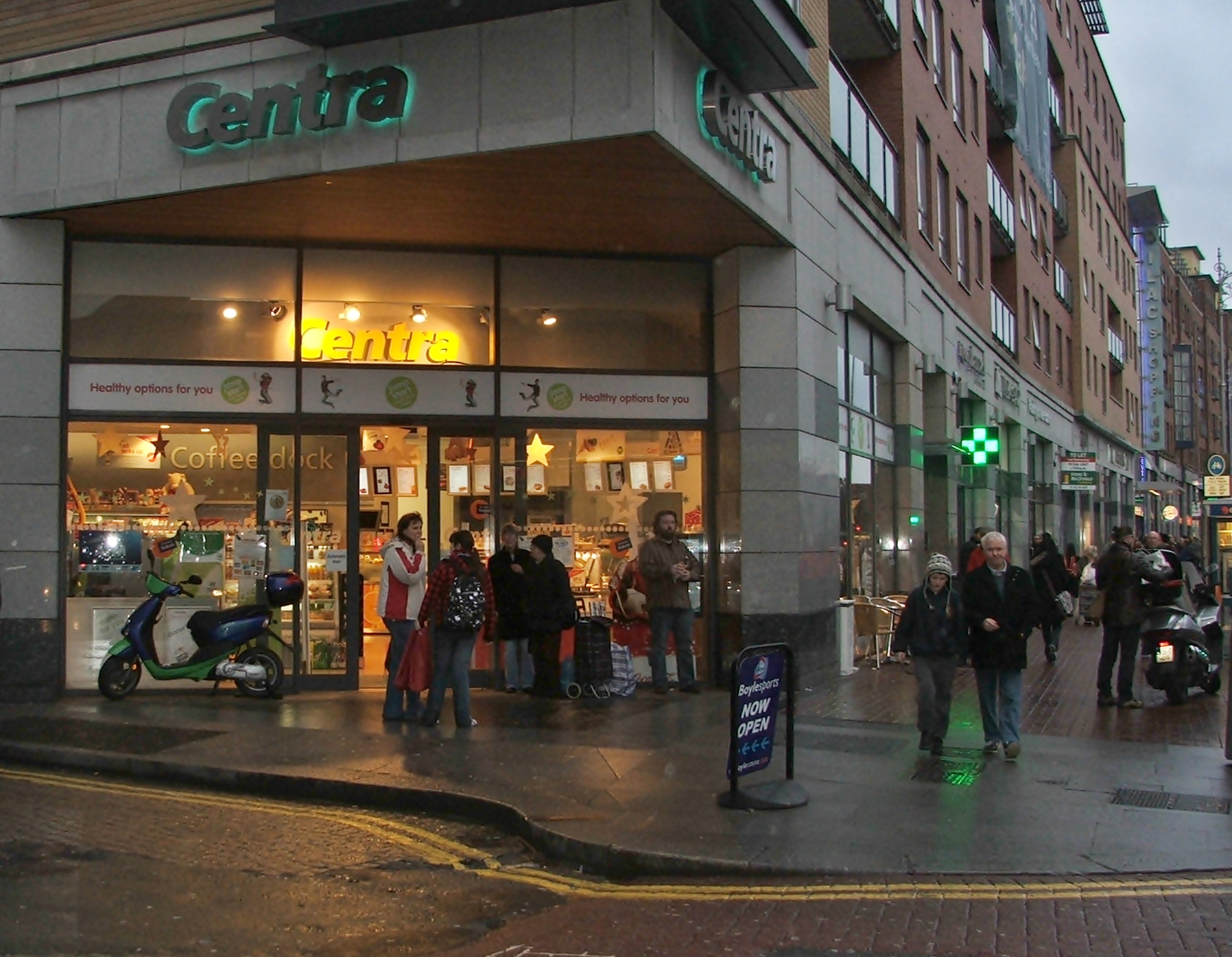 Centra on Parnell Street, Dublin, Ireland